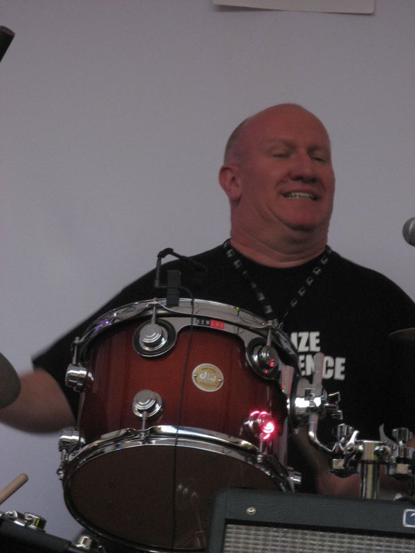 Denis Barthe from The Hyènes, at the Hôtel de Sully (Paris) on World Music Day 2007.